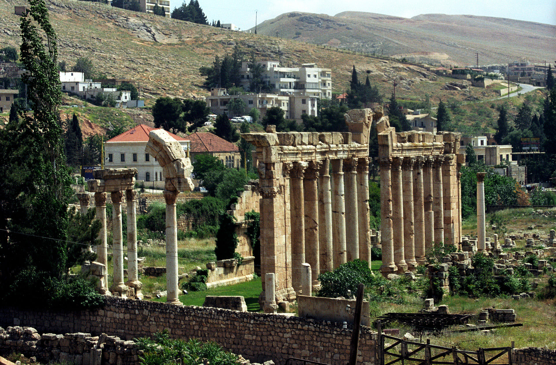 Baalbek, the great mosque